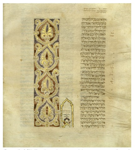 Damascus Keter, Bible. Manuscript on parchment. Burgos, Spain, 1260. End of the book of Ruth